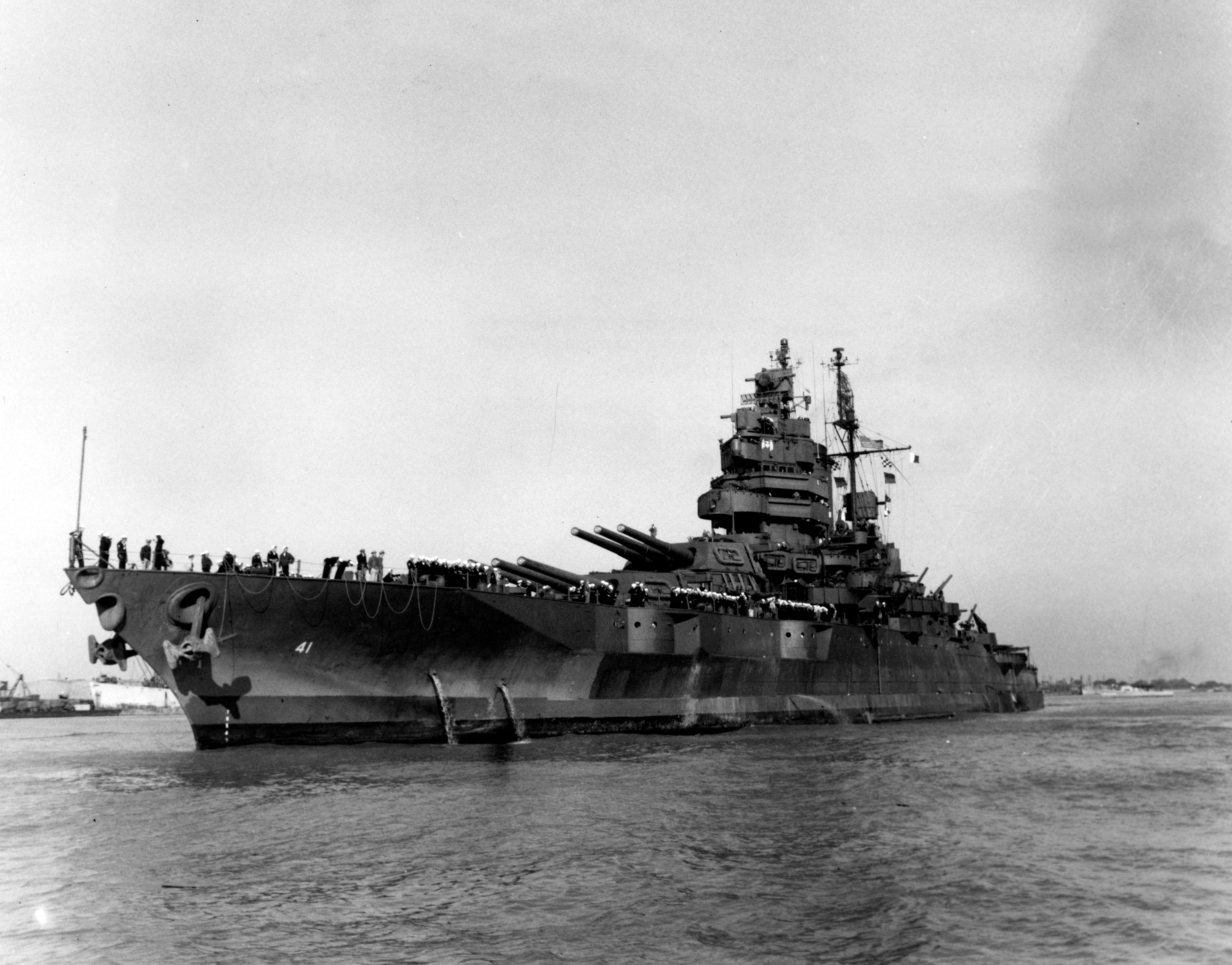 The U.S. Navy battleship USS Mississippi (BB-41) in the Mississippi River, en route to take part in Navy Day celebrations at New Orleans, Louisiana (USA), 16 October 1945. Note her anchors suspended below their normal stowed position at the bow.